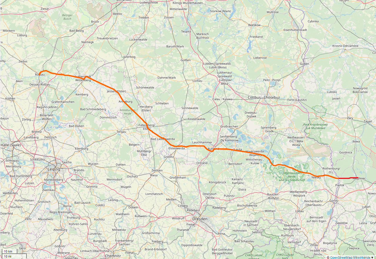 Map of Węgliniec–Roßlau railway (line 295 in Poland (red) and line 6207 in Germany (orange)) This map may be incomplete, and may contain errors. Don't rely solely on it for navigation.